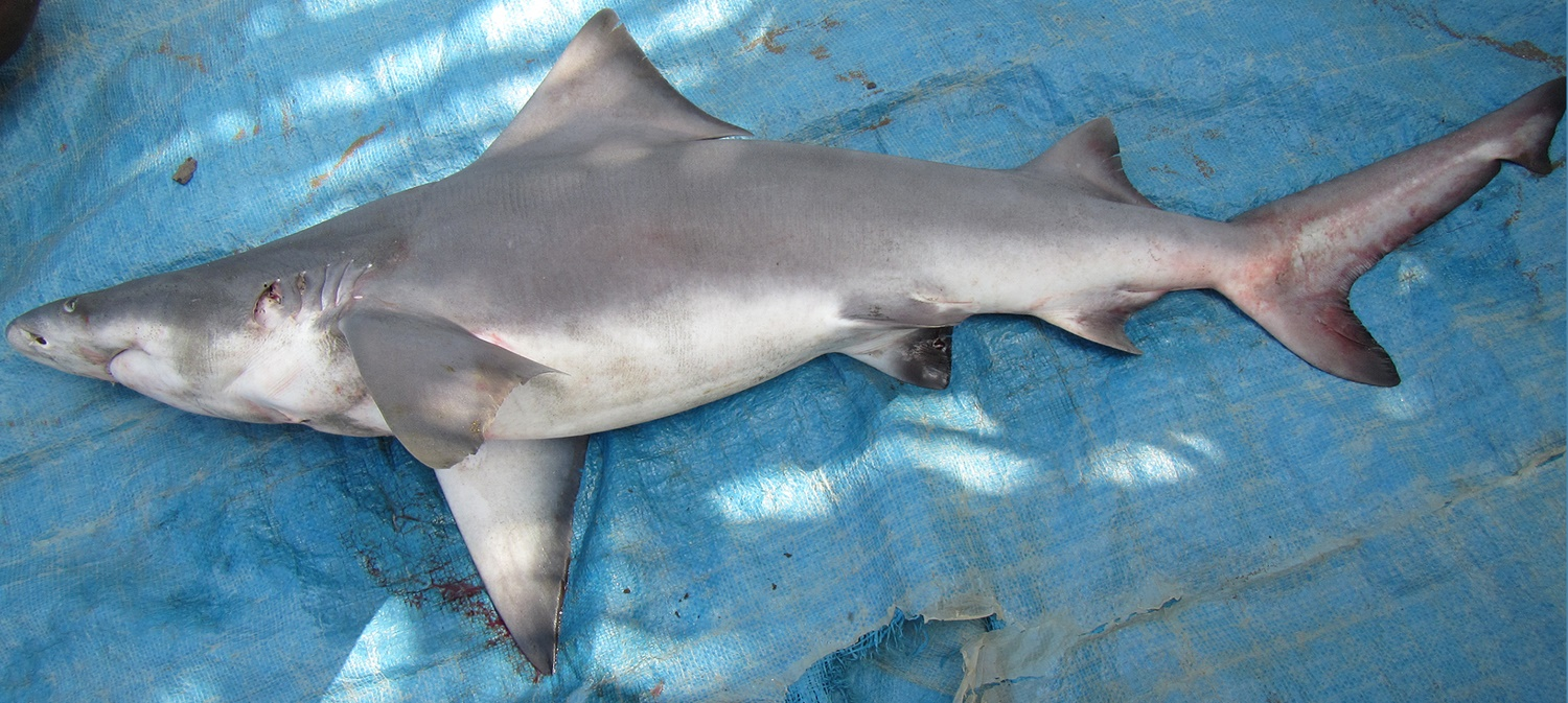 Northern river shark (Glyphis garricki) from coastal marine waters of the Daru region, Western Province, Papua New Guinea.